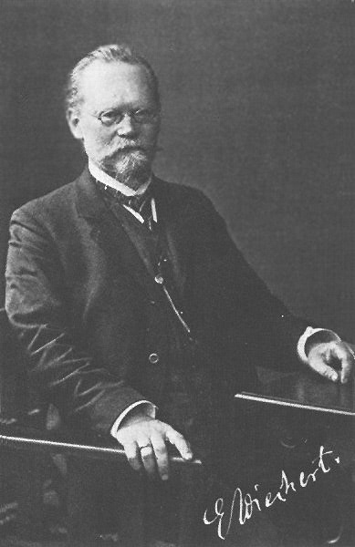 Emil Wiechert (1861-1928), German electrofysicist, astronomer and seismologist